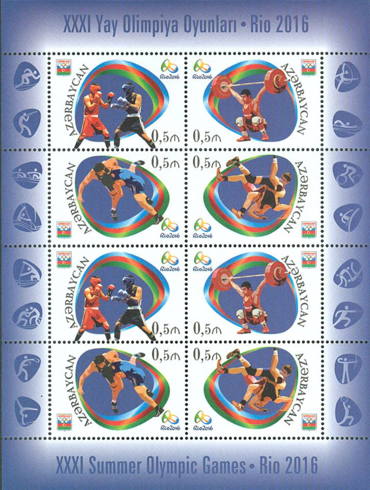 XXXI Summer Olympic Games. Rio-2016. N 1267 - 50 qapik. Boxing N 1268 - 50 qapik. Weightlifting N 1269 - 50 qapik. Greco-Roman wrestling N 1270 - 50 qapik. Free-style wrestling